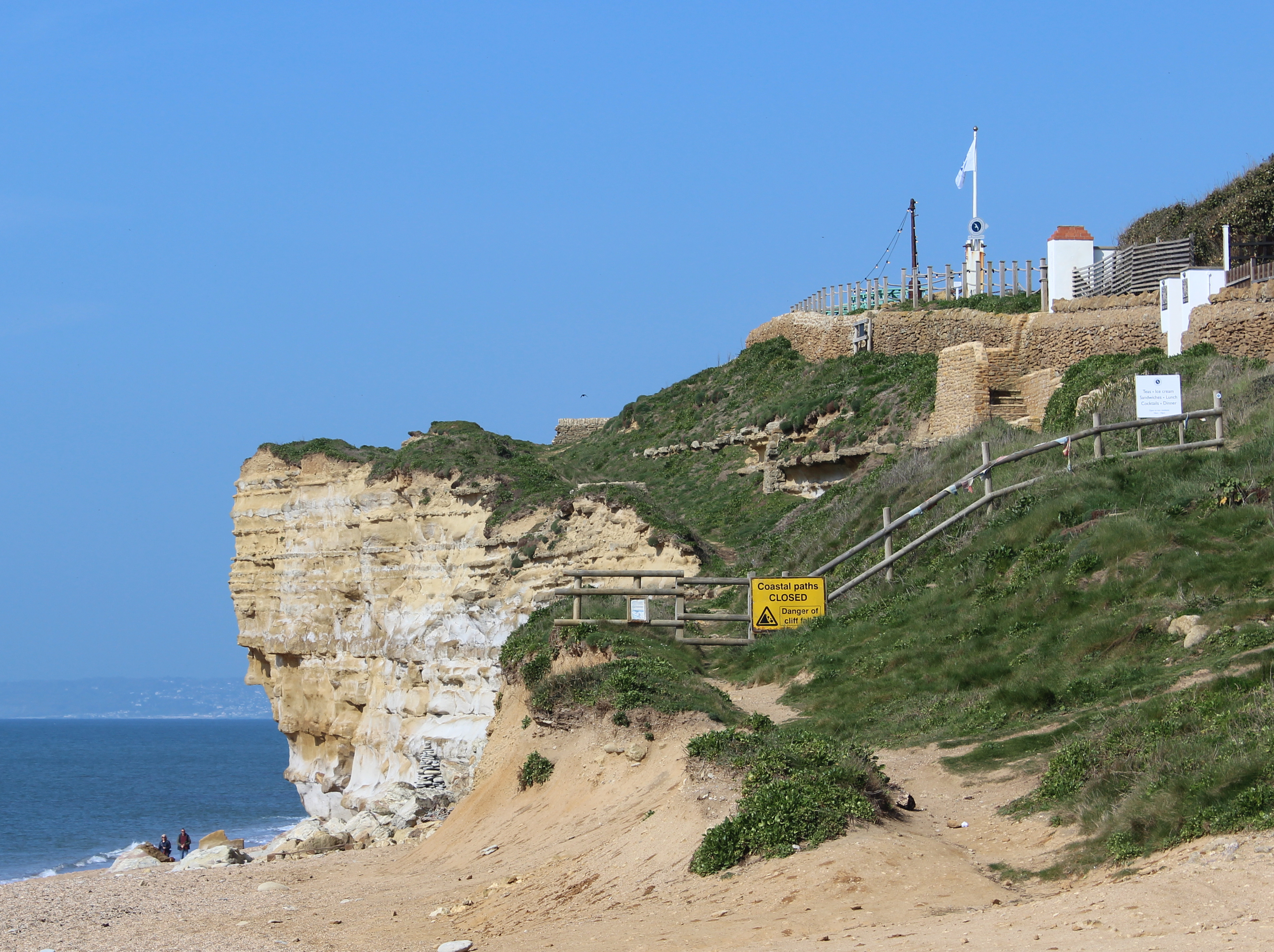 The eastern end of East Cliff, West Bay, Dorset, England from Burton Bradstock (Hyde) Beach showing both the rock layers and the erosion that is taking place on this part of the Jurassic Coast. The original footpath, part of the South West Coast Path, has been closed due to the risk of the cliff-face collapsing. The cliff, which is rich in fossils, is part of the Jurassic Coast. Geologically the cliff is described as "the finest available outcrop of the Bridport Sands, overlain by Middle Jurassic Inferior Oolite and Fullers Earth".[1] and is "considered by geologists and geomorphologists to be one of the most significant teaching and research sites in the world".[2] ↑ (June 2000) Nomination of the Dorset and East Devon Coast for inclusion in the World Heritage List, Dorset County Council and Devon County Council, p. 39, 57 Retrieved on 18 December 2019. ↑ Dorset and East Devon Coast. UNESCO. Retrieved on 18 December 2019. This place is a UNESCO World Heritage Site, listed as Dorset and East Devon Coast.